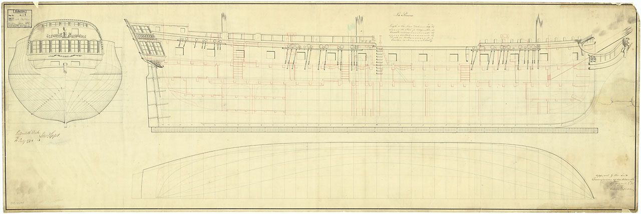 POMONE FL.1794 [FRENCH] lines & profile